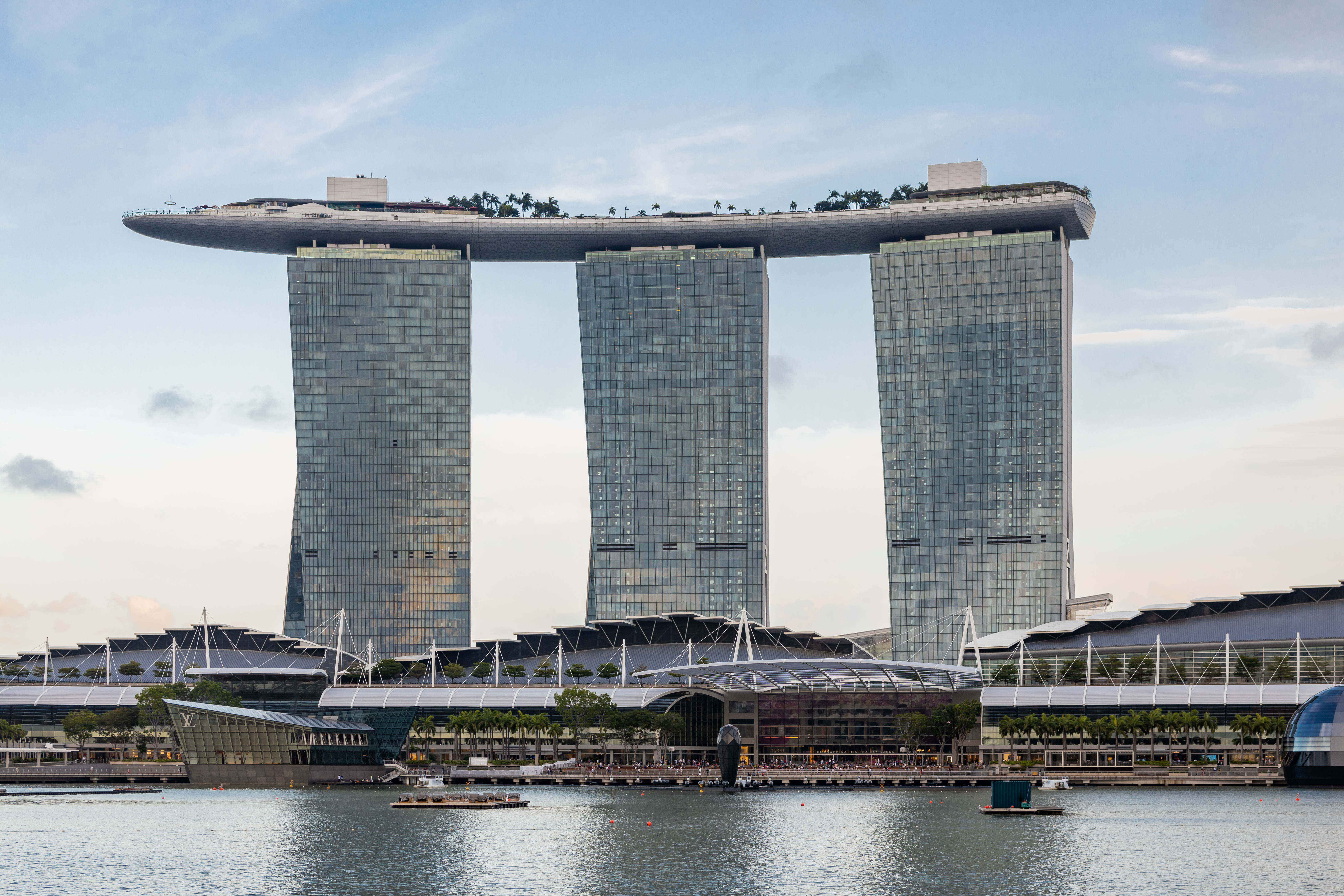 The elevation view from the west of Marina Bay Sands, Singapore